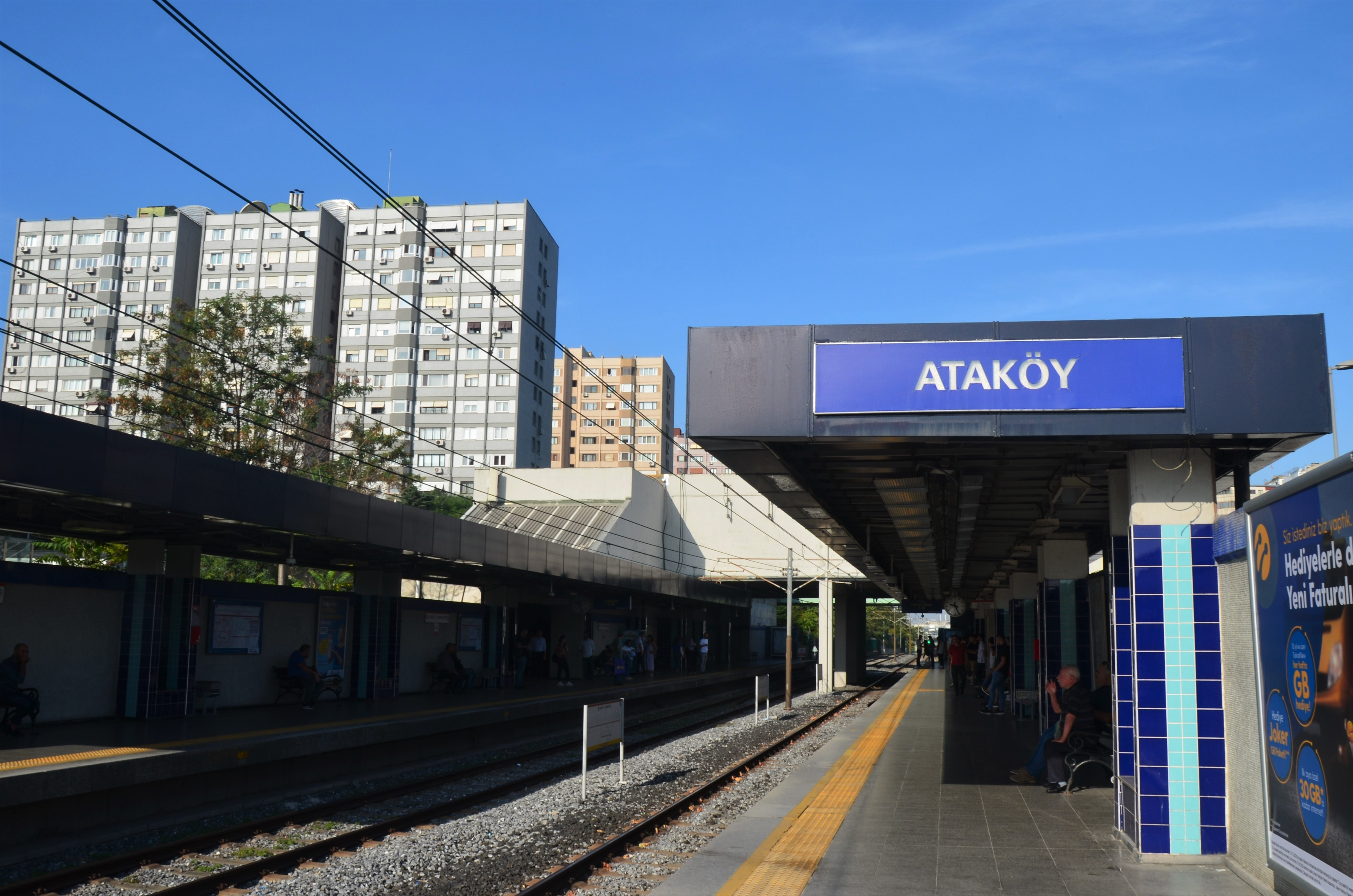 Metro station Ataköy of line M1A in Istanbul, Turkey